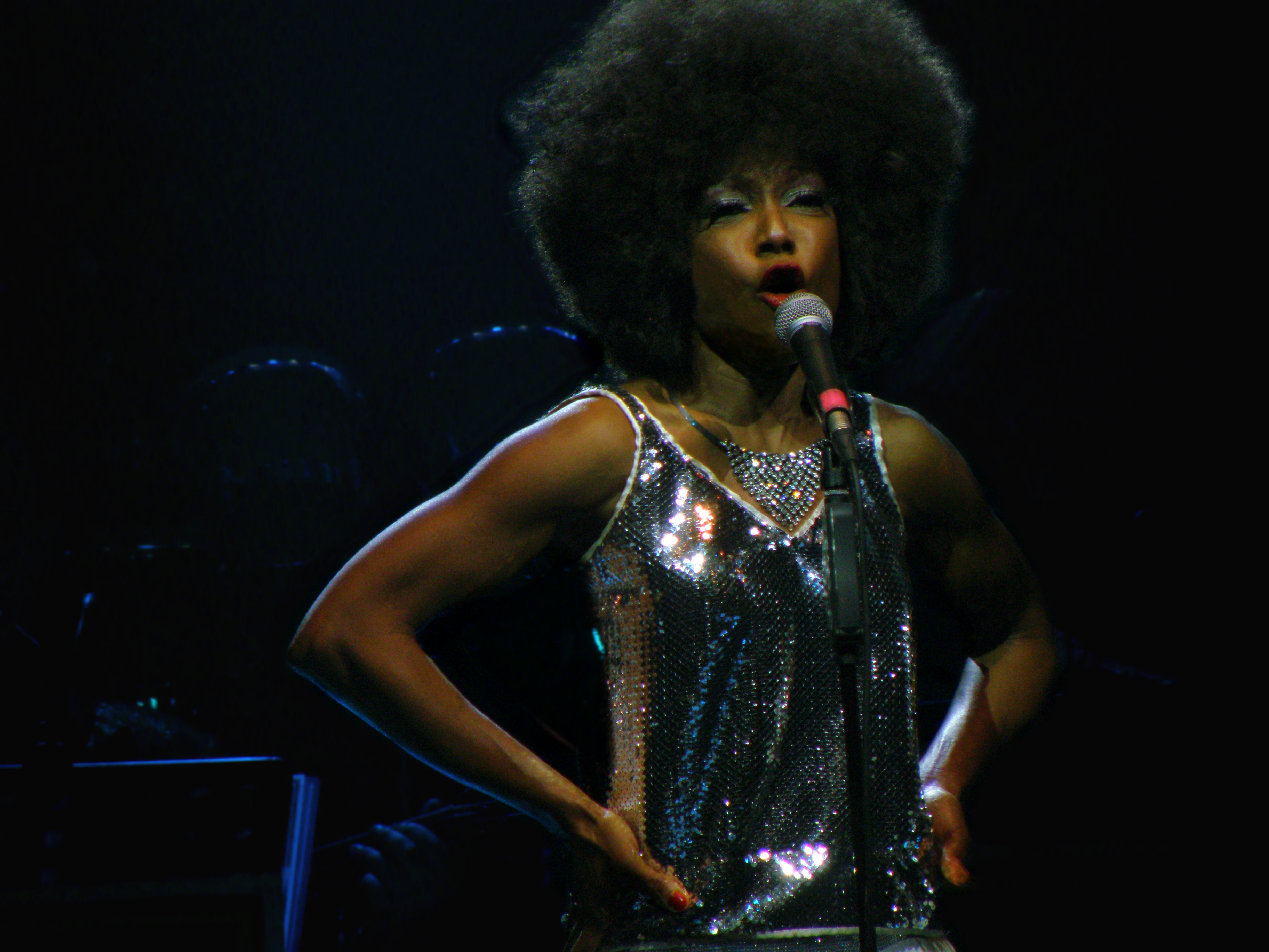 The singer and actress Amii Stewart in the show "La via del Successo - Dreamsister's" at Teatro Manzoni in Milano, Italy.